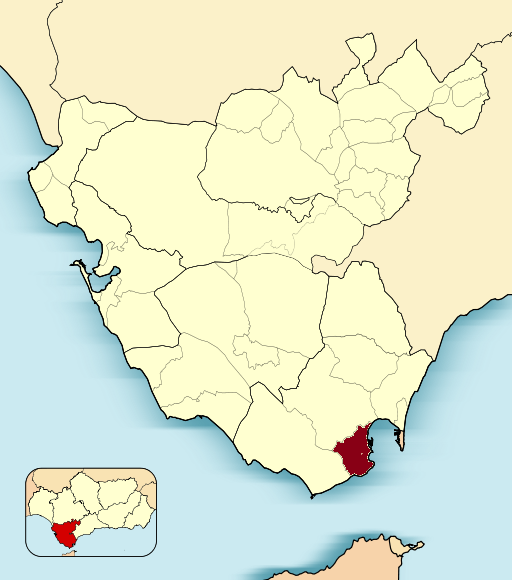 Municipal locator